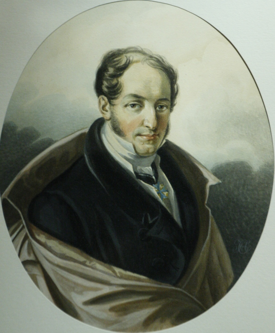 Lorer Alexander Ivanovich (by K. Gampeln after B.-C. Mitoire)